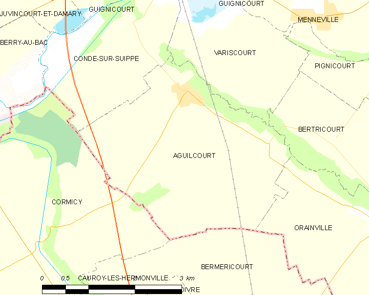 Map of French commune: Aguilcourt Map commune FR insee code 02005.png